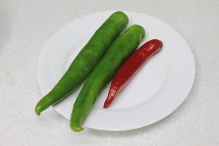 Cucumber chillies and a red Korean chilli